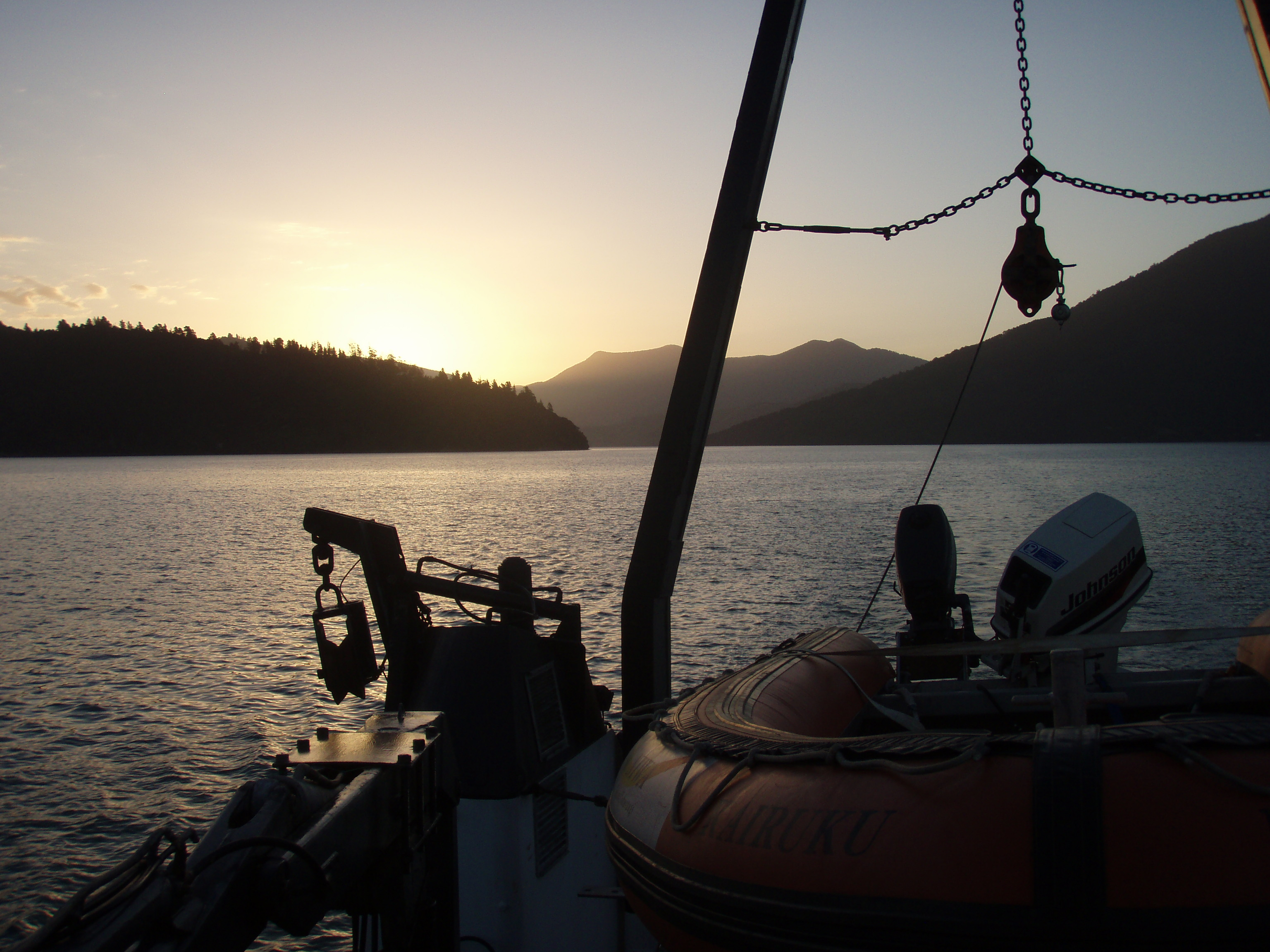 Kenepuru Sound at dusk during oceanographic voyage in 2008 - image taken from RV Kaharoa